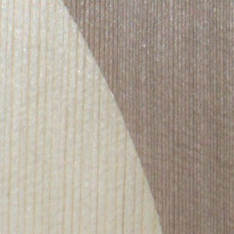 Comparison of spruce and "cedar" (Thuja plicata) guitar tops